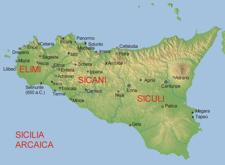 arcaic sicily